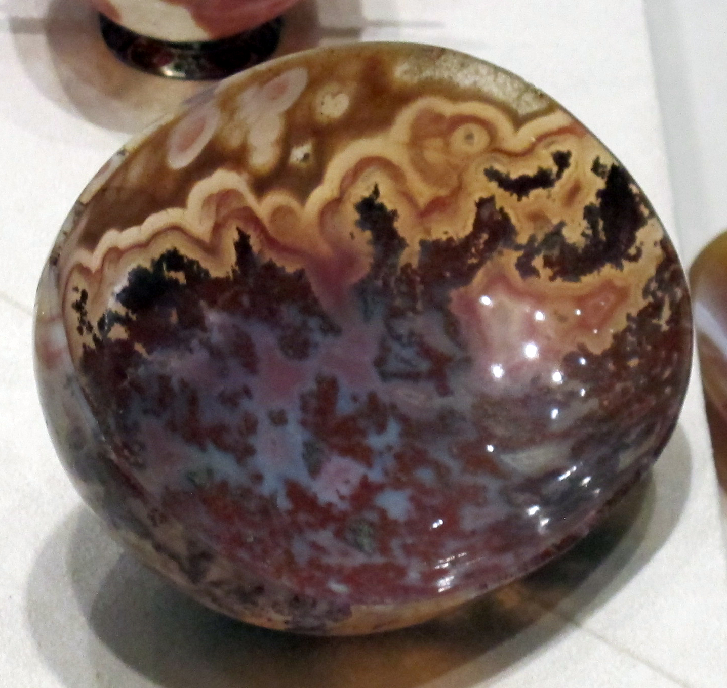 Museo di storia naturale (Florence) - Mineralogy section - Hardstone carving